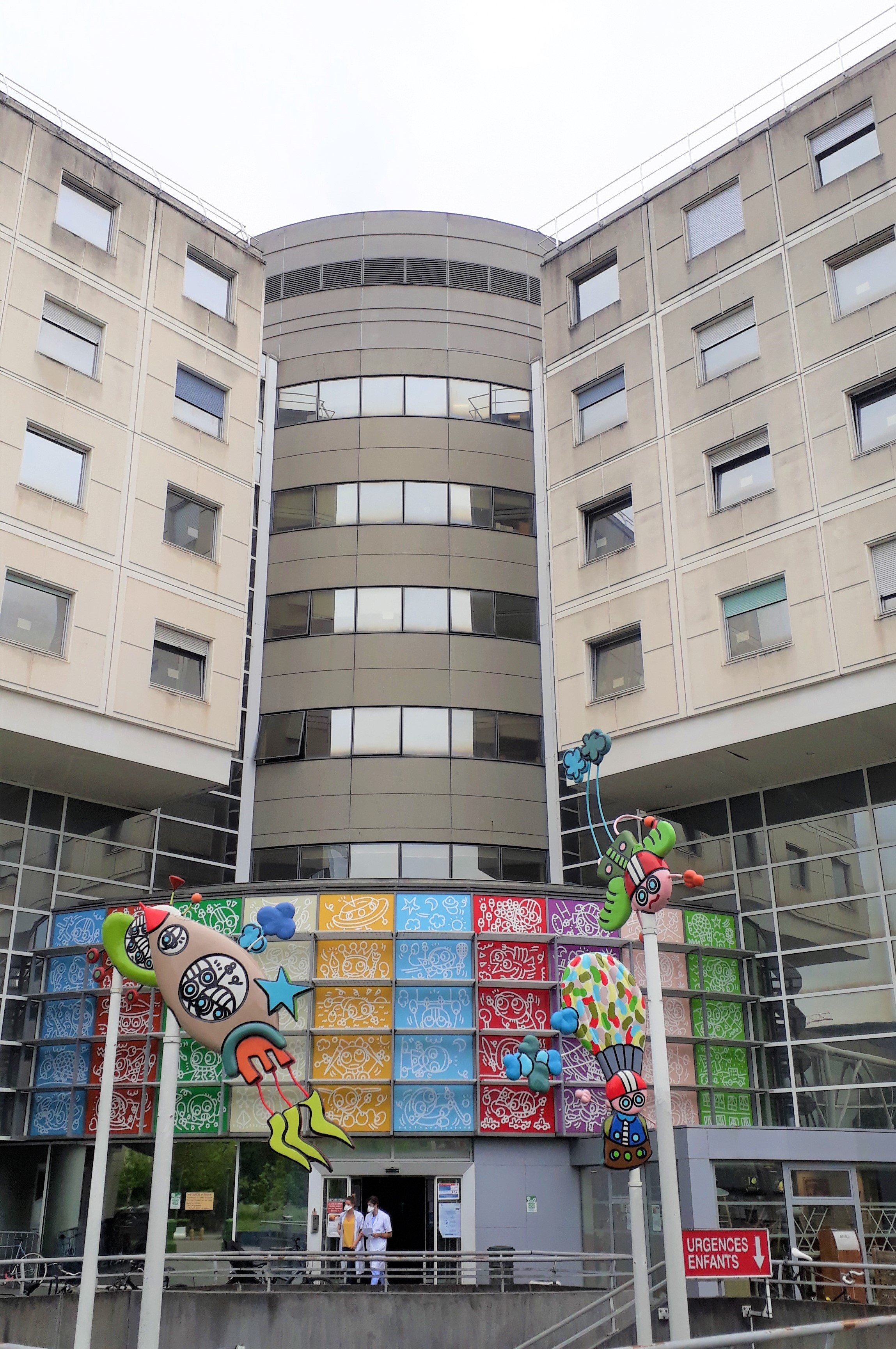 Entrance of the Children hospital, Bordeaux CHU. Decoration by Jofo.